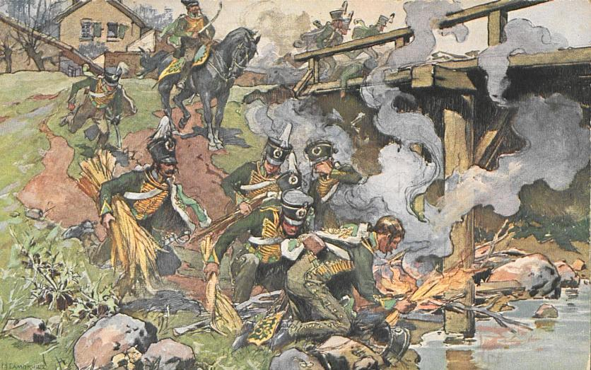 Postcard depicting Pavlograd Hussars setting fire to a bridge during the 1812 French invasion of Russia